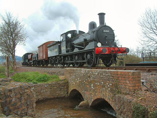 River Avill Bridge. Great Eastern Railway Y14 / LNER Class J15 0-6-0 No. 65462 with demonstration freight train. The River Avill passes under the West Somerset Railway by way of this modest two arch structure.